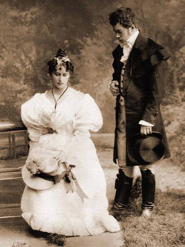 Nicky Romanov and Elizabeth of Hesse in a home production of Pushkin's Eugene Onegin